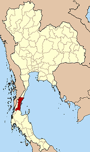 Map of Thailand highlighting Chumphon province